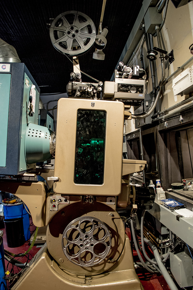 This photo shows one of the two Philips DP70 projectors in the booth of the Egyptian Theatre, Hollywood, taken on March, 14, 2014. The pedestal, mechanism (with operating cover closed) and penthouse digital audio readers can be seen.